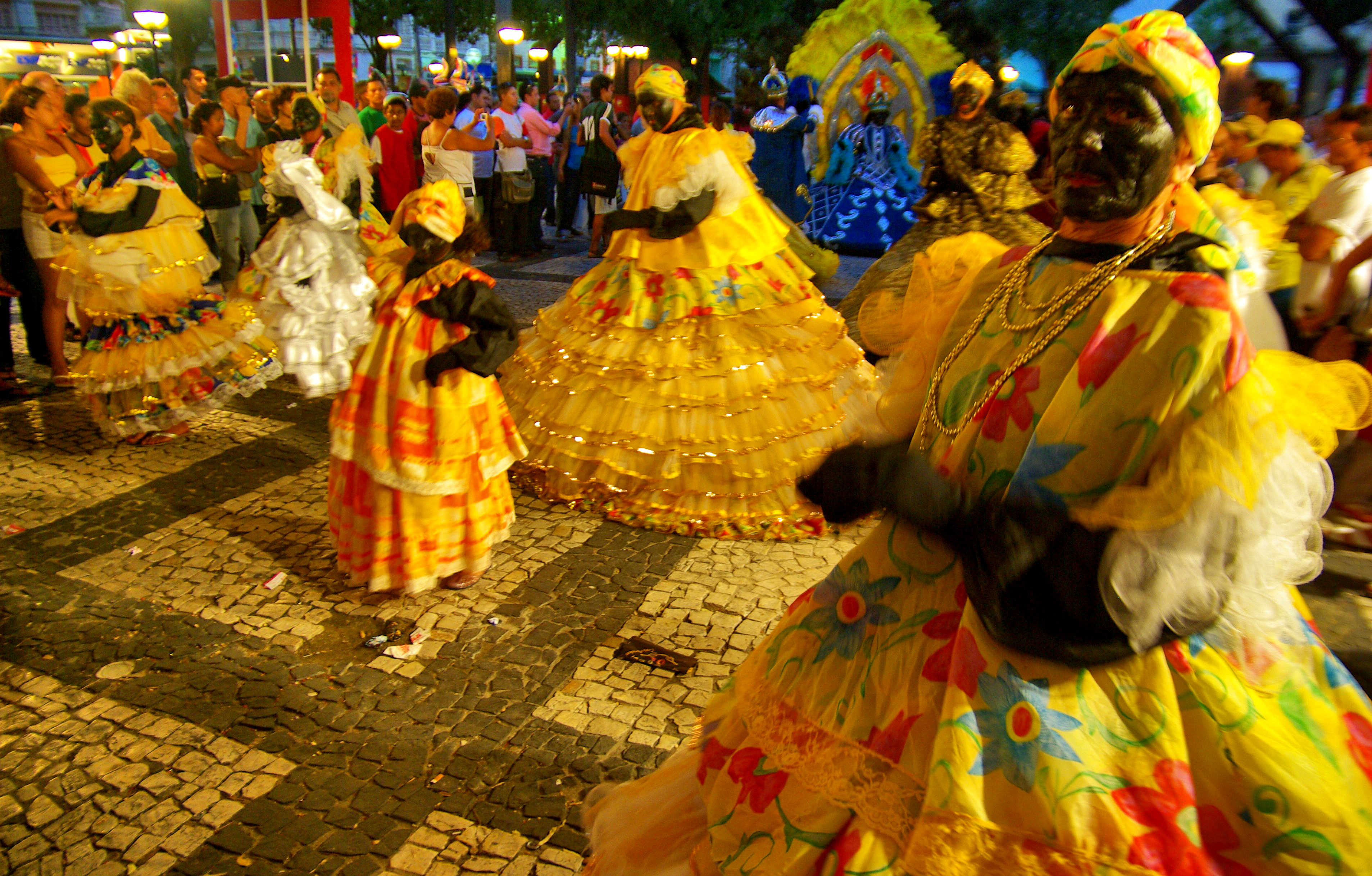 Cultural Act in Fortaleza